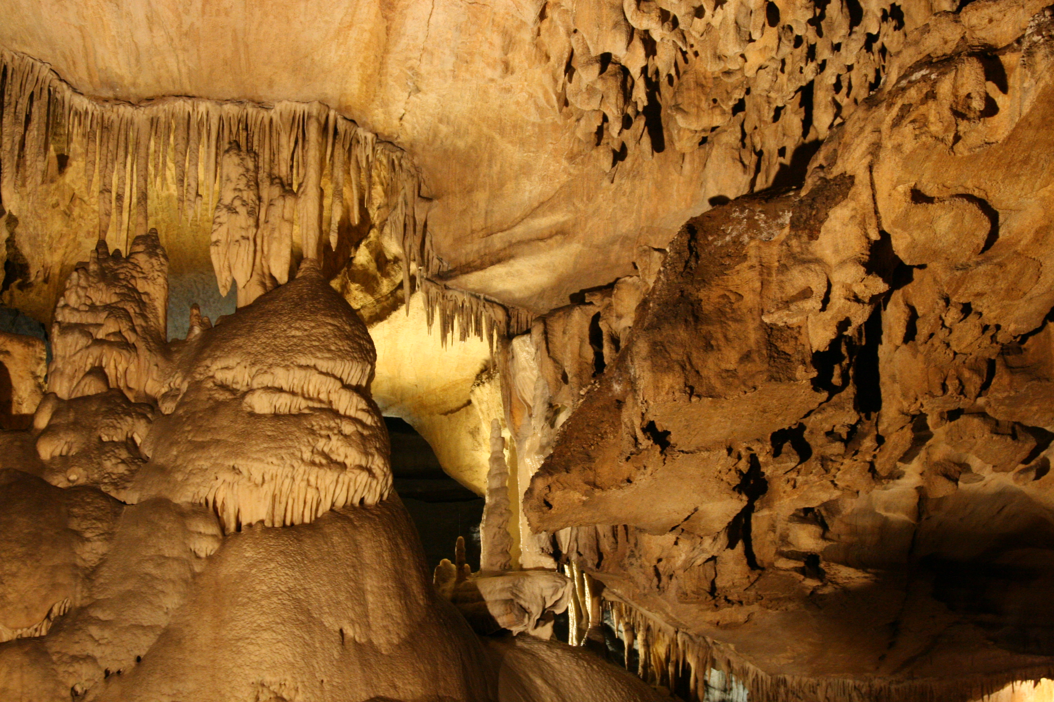 Crystal Cave - Sequoia National Park, Image taken by Victor Gane on July 6 2007.